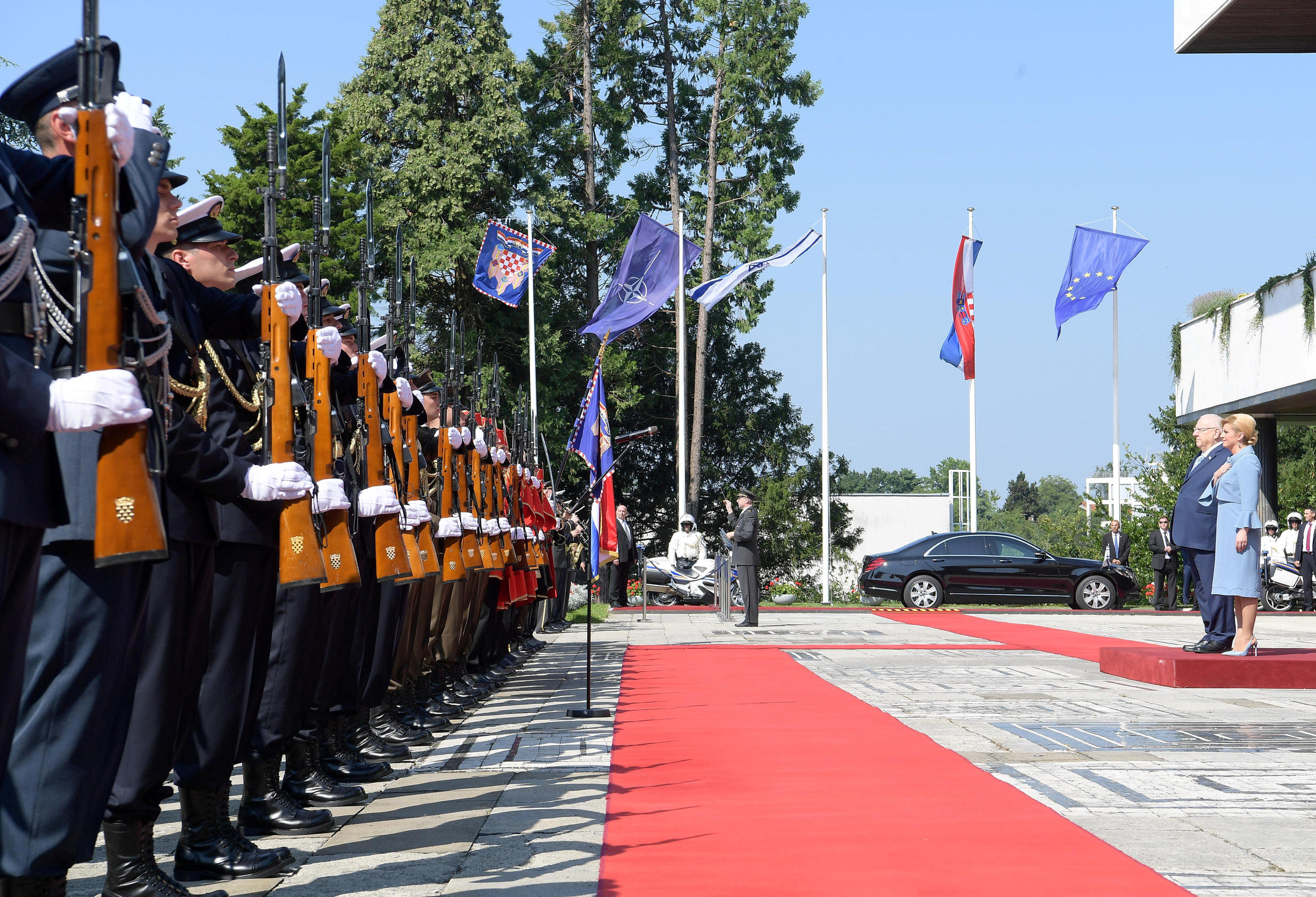 the President of Israel, Reuven Rivlin, at a state reception at the presidential palace accepted by the President of Croatia, Kolinda Grabar-Kitarović. Tuesday, July 24, 2018. Photo credit: Amos Ben Gershom / GPO.